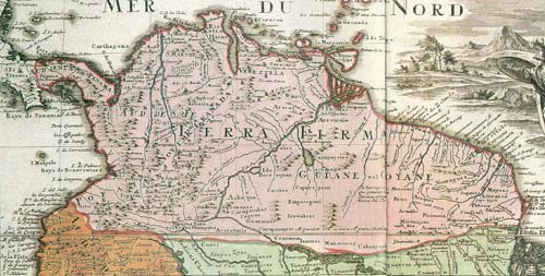 Map of Terra Firma, made up of the New Kingdom of New Granada, the Royal Audiencies of Panamá and Santa Fe de Bogotá, and Provinces of Santa Marta, Popayan, Venezuela, and Guyana.